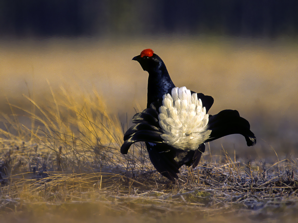 Black brouse